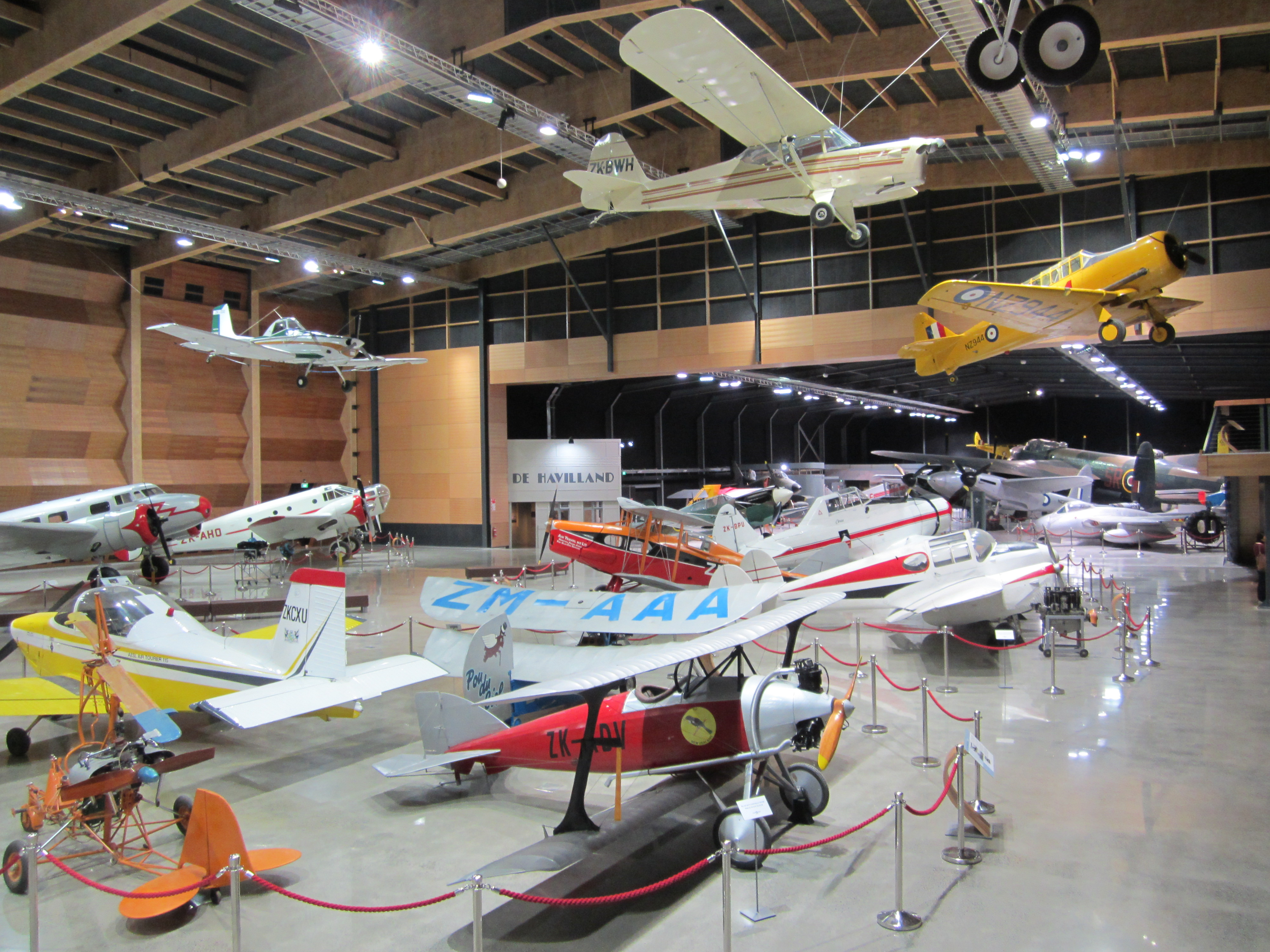 The Sir Keith Park Memorial Aviation Collection at MOTAT in Auckland. Foreground: Tui Sports reproduction "ZK-ADV"